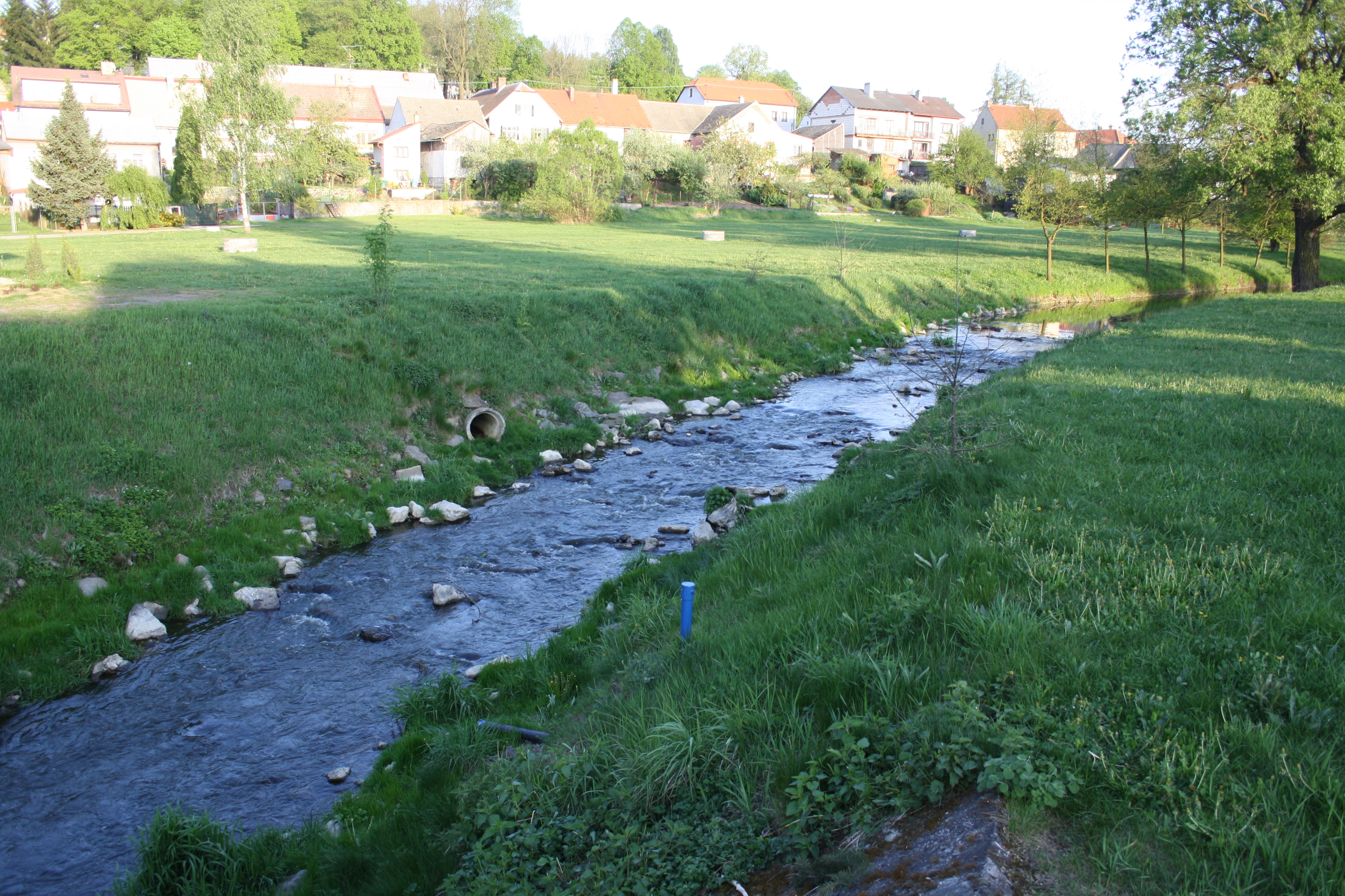 Třešťský stream in Třešť, Czech Republic.